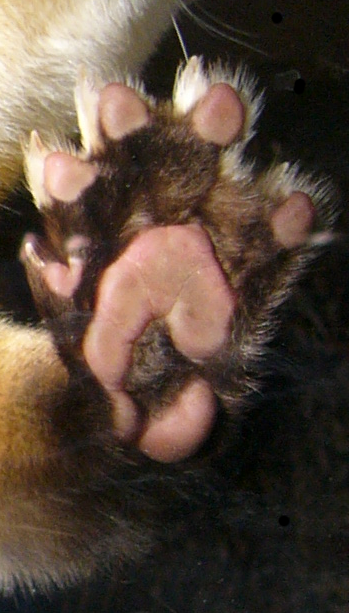 Front left pad of Martes flavigula. Photo taken over the glass.